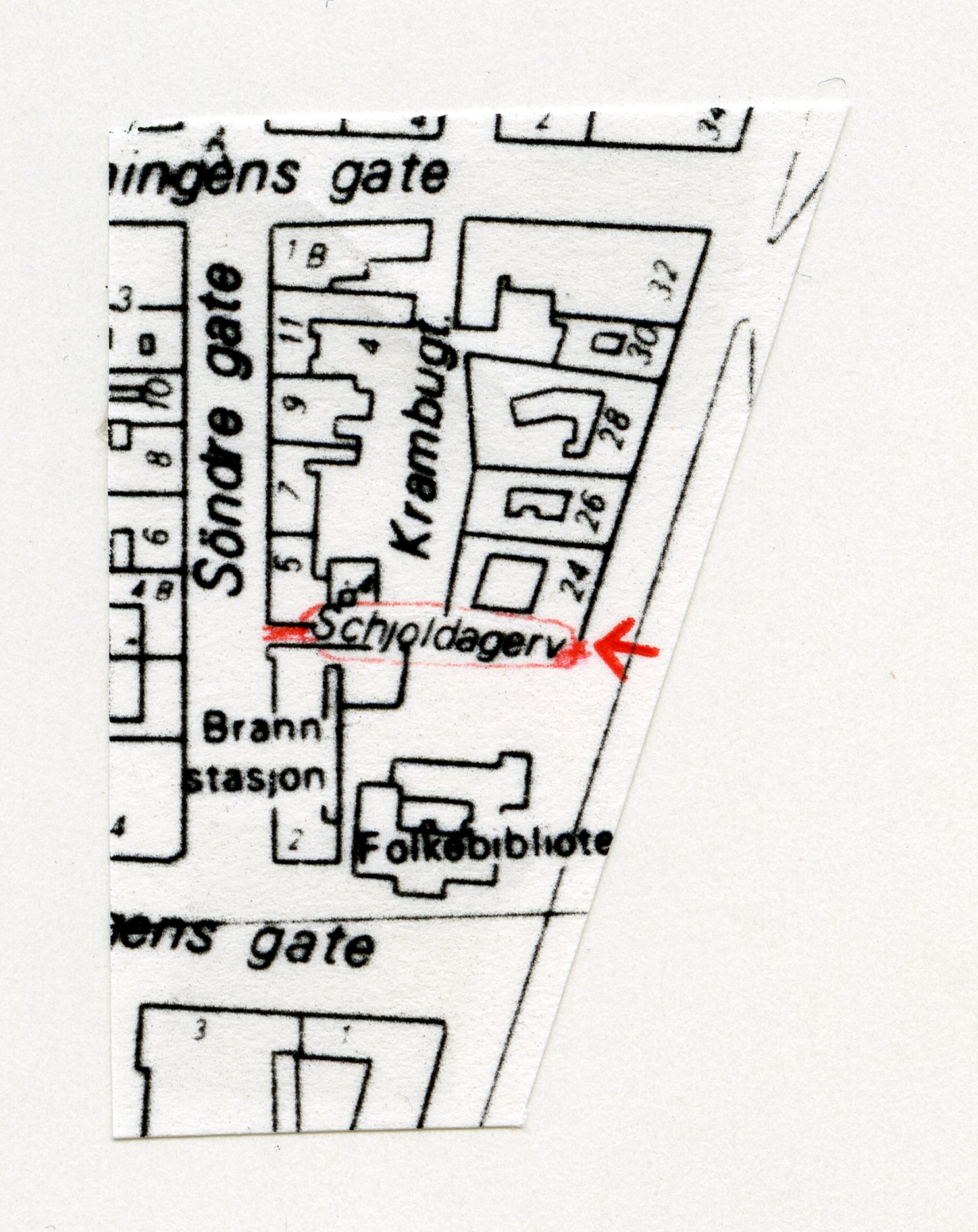 Format: Kart Sted / Place: Schjoldagerveita, Trondheim Wikipedia: Veit Eier / Owner Institution: Trondheim byarkiv, The Municipal Archives of Trondheim Arkivreferanse / Archive reference: A1.S4.P1.BP0020 - Byantikvarens positivsamling